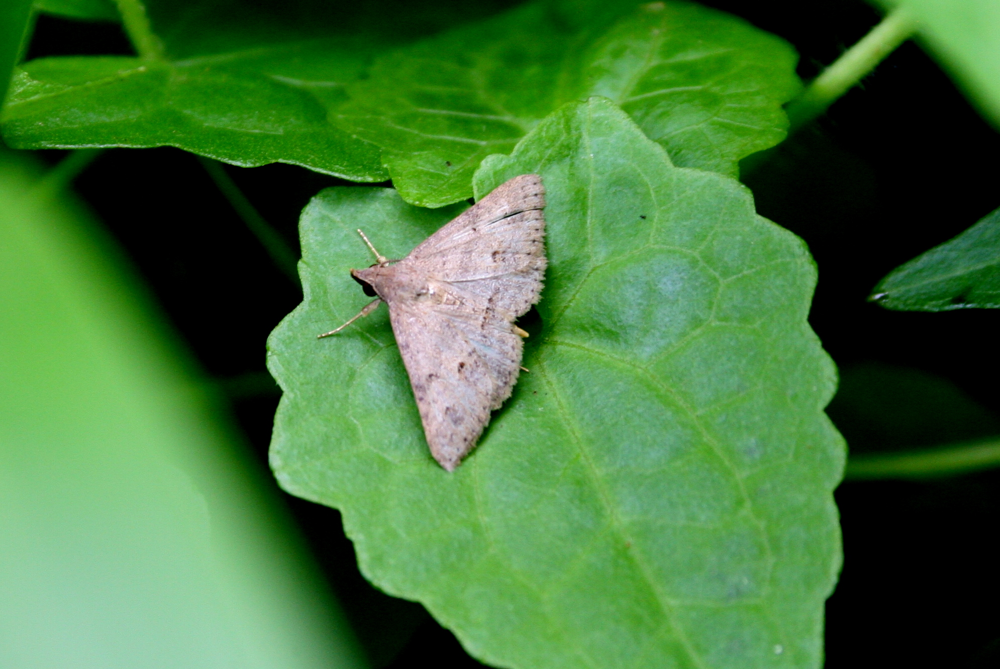 Gesonia sp. (probaby Gesonia obeditalis) from Sri Lanka